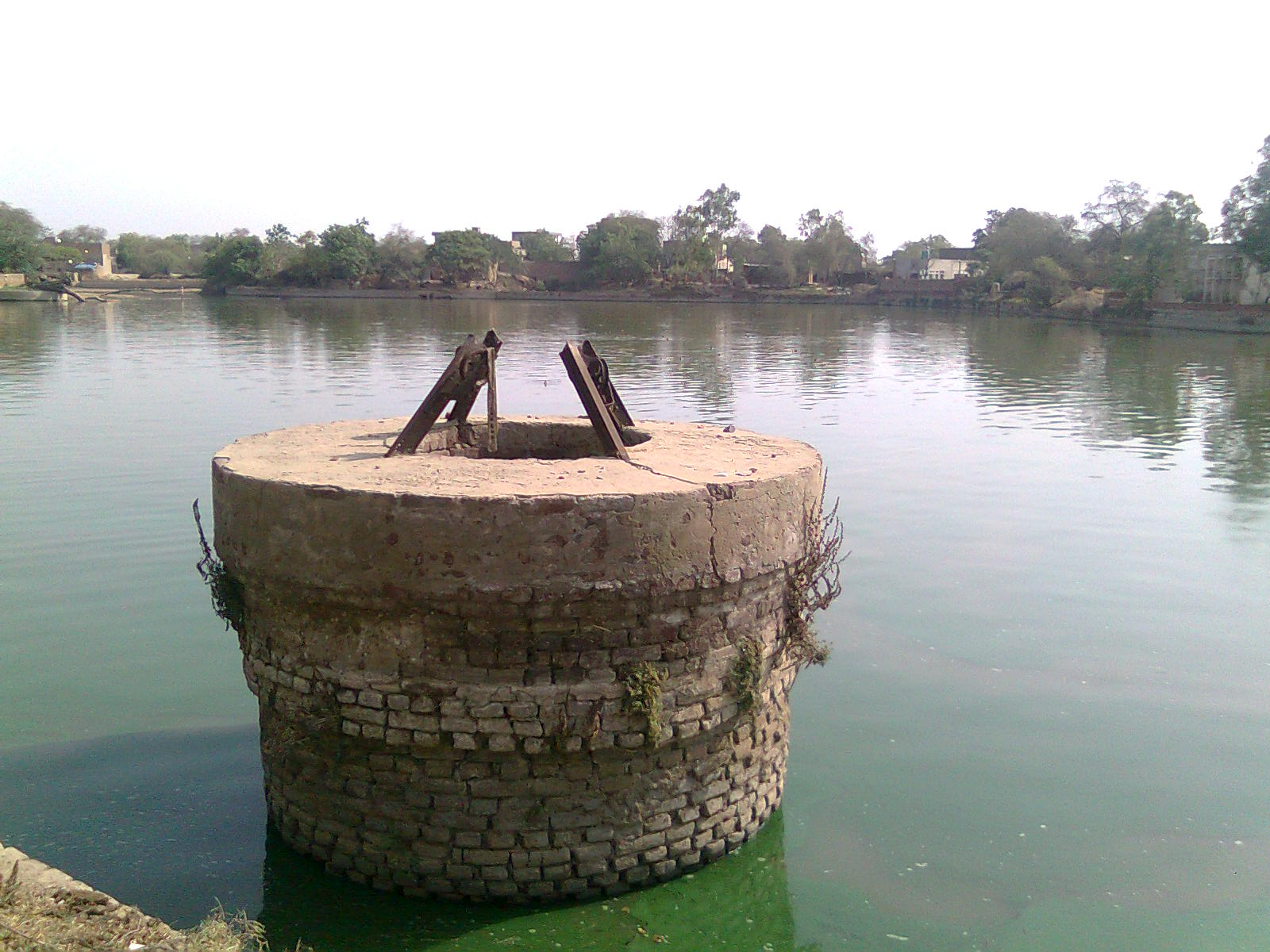 An old drinking water well (Template:Lang-pa) in Raipur village of Mansa district in East Punjab. It is not used anymore and lies in the pond of water near the way to Nangla village. We can see the parts that helps pulling from the well.